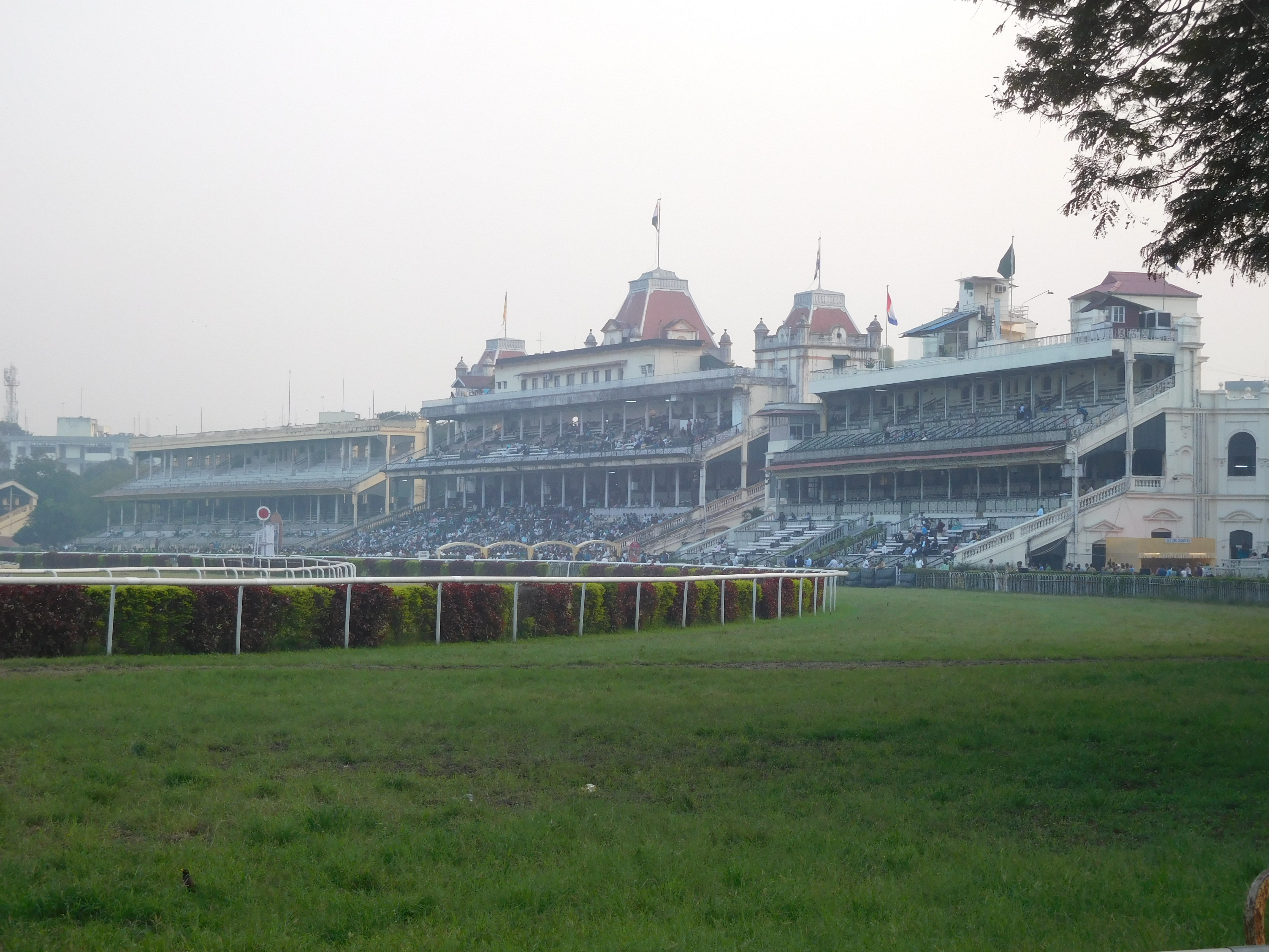 The Race Course grand stand in Kolkata (southern part of the Maidan area)